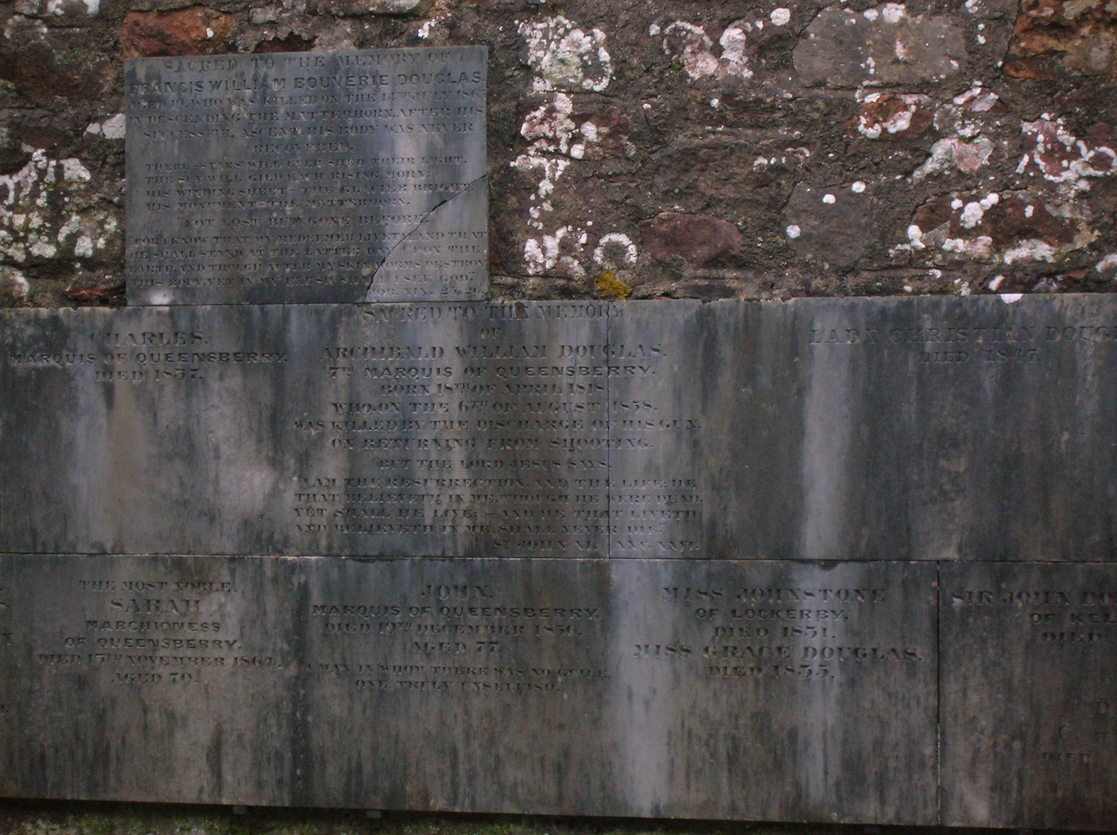 Memorials on the outside of the Douglas Mausoleum, Cummertrees Parish Church, Dumfries, Scotland.